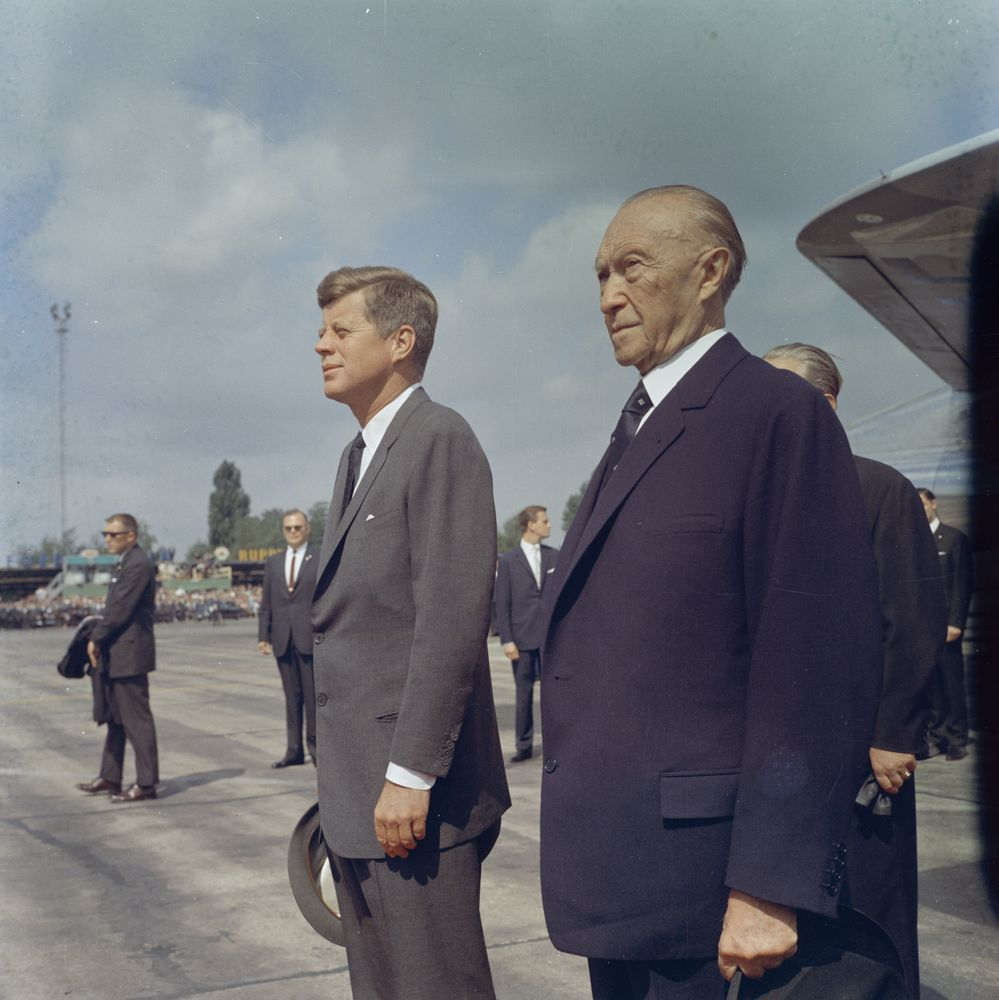 President John F. Kennedy stands with Chancellor of West Germany, Konrad Adenauer (right), during his arrival ceremony at Wahn Airport in Bonn, West Germany (Federal Republic). Also pictured: White House Secret Service agents, Jerry Blaine and Floyd Boring. [Blemish along right edge is original to the negative.]